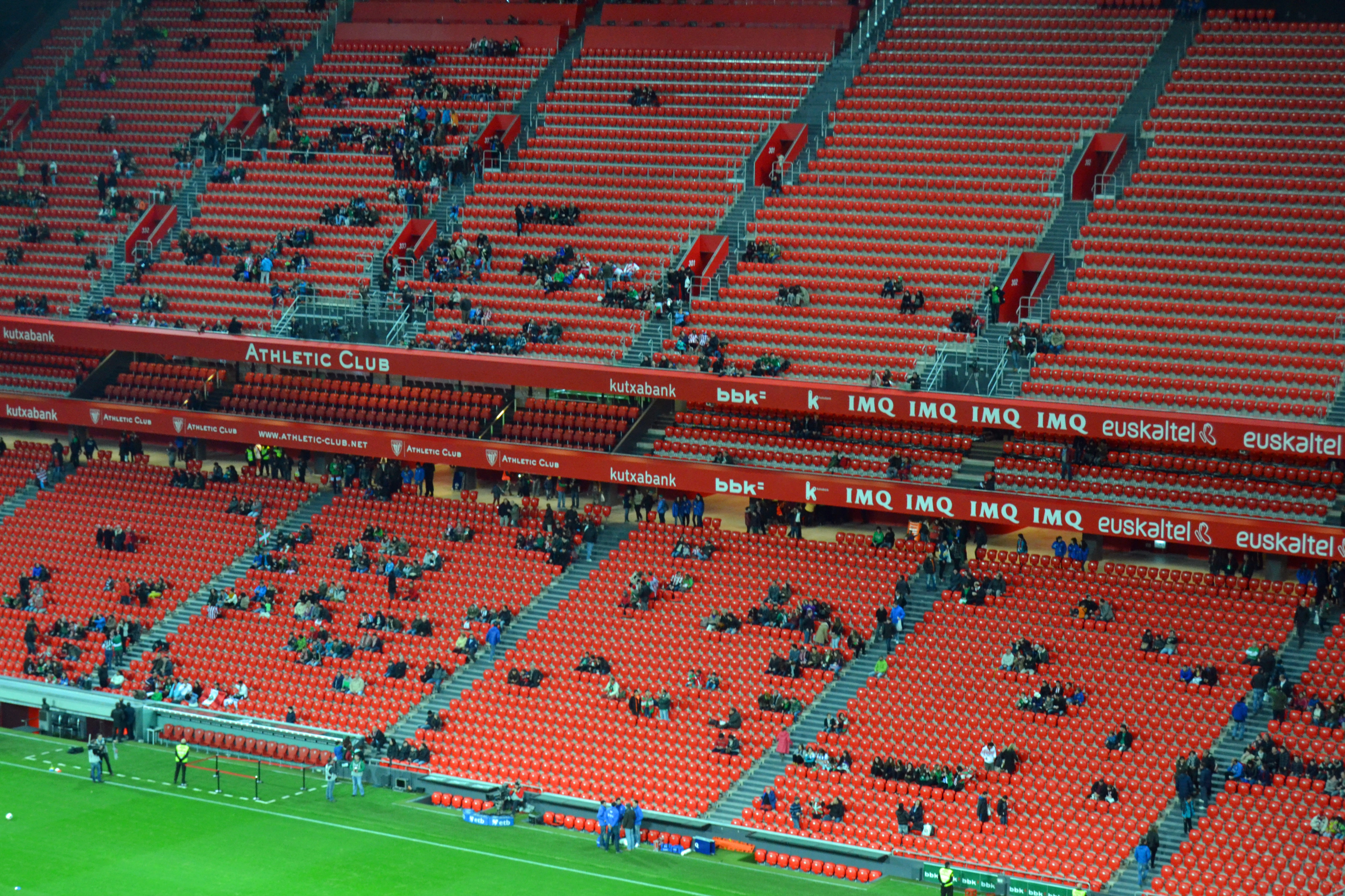 Prolegomenon of Basque National Football Team Vs Peru National Football Team, 28th December 2013. San Mames Stadium, Bilbao. Bizkaia, Basque Country.